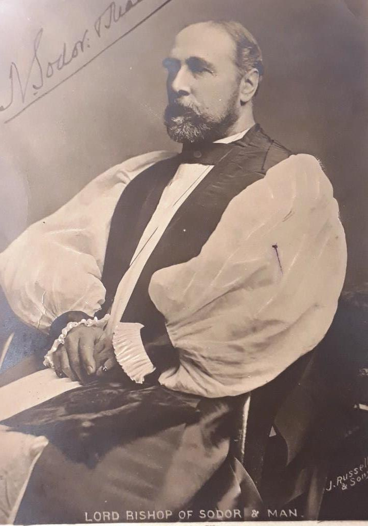 Rt Rev Norman Straton, Bishop of Sodor and Man